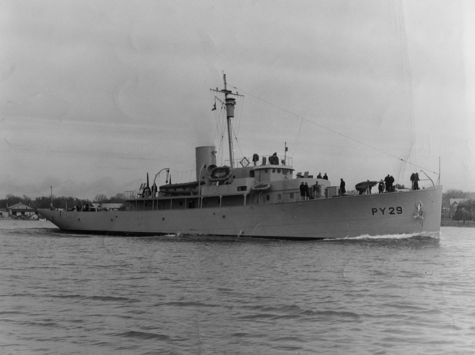 USS Mizpah (PY-29) during its trial run.